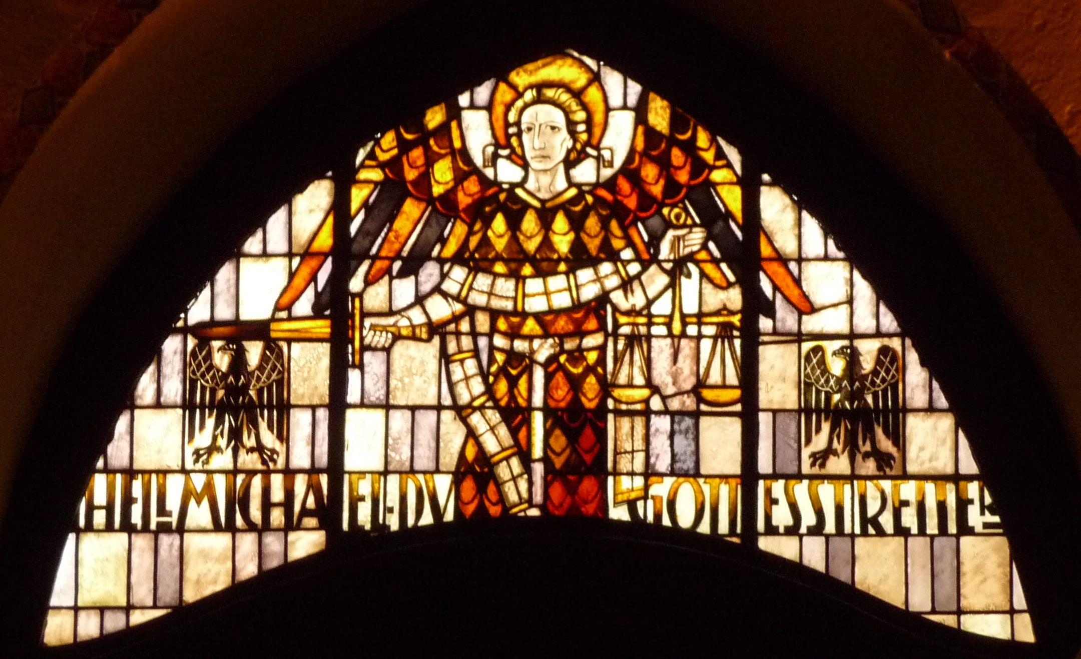 Saint Michael; stained glass in the Pfarrkirche St. Martin in Linz am Rhein (Germany) The legend says "Heil Michael du Gottes Streiter" (Heil Michael, you Warrior of God). 20th c.